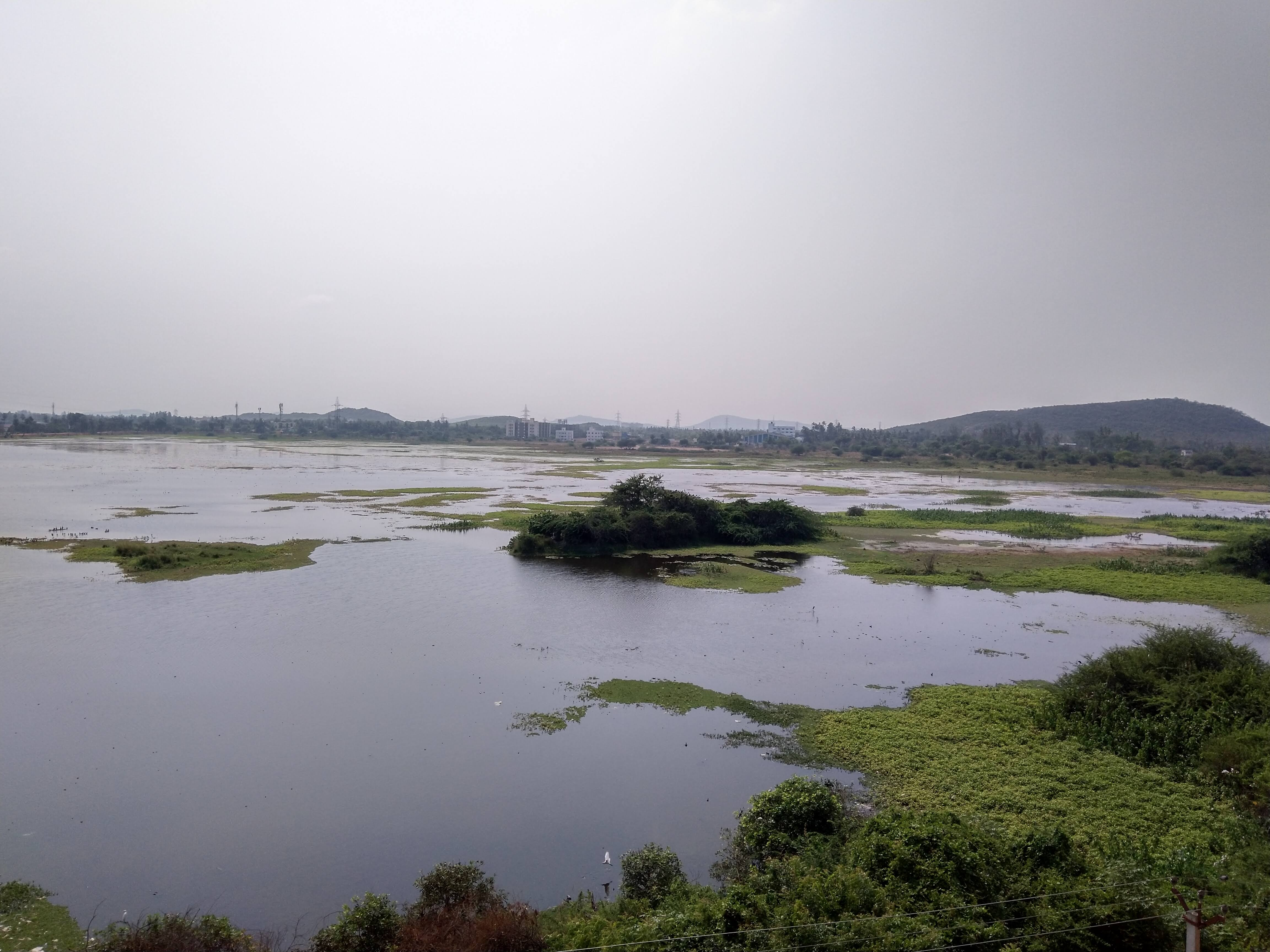 Potheri Lake before monsoon